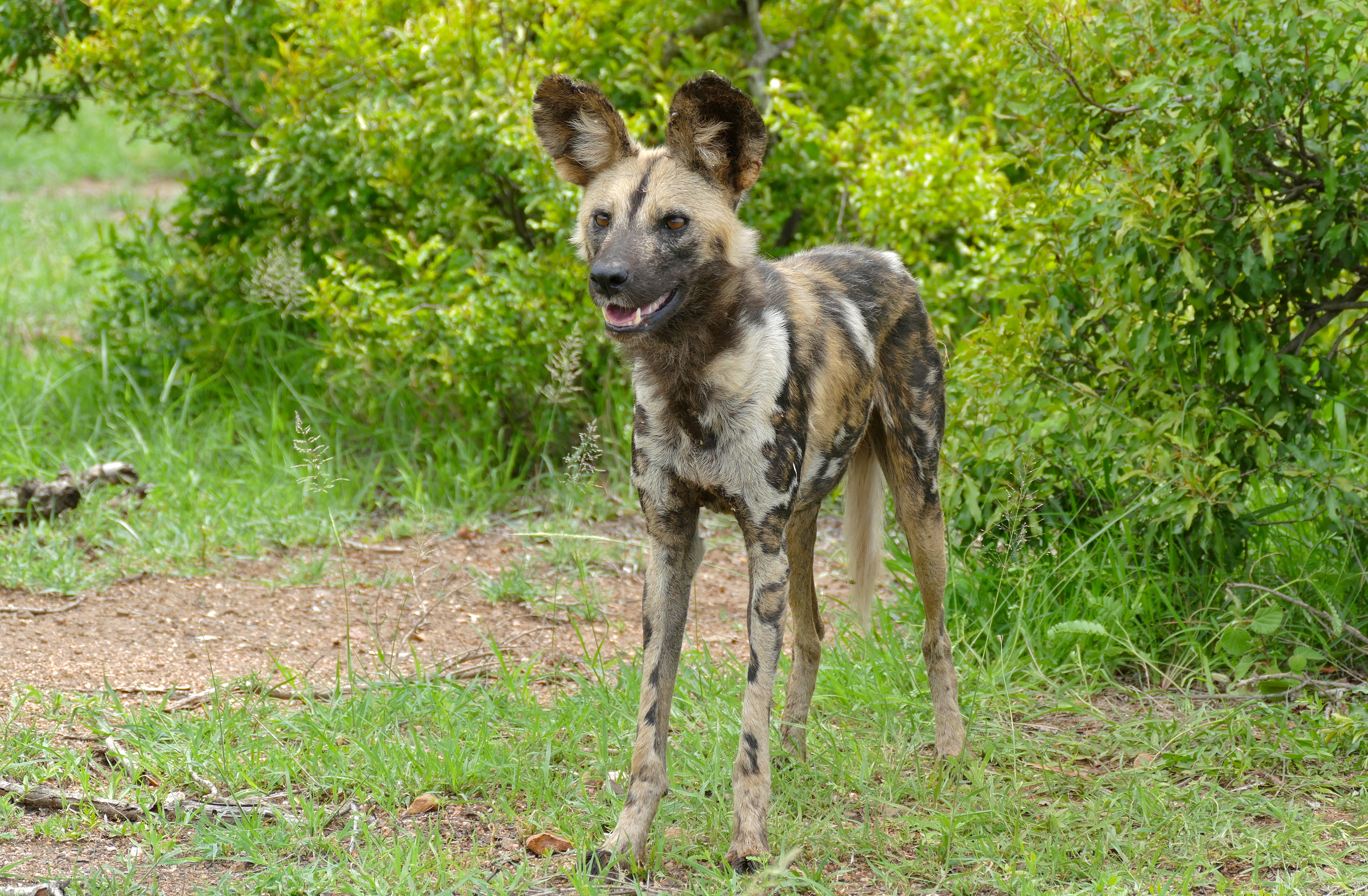 S28 Road South of Lower Sabie, Kruger NP, SOUTH AFRICA